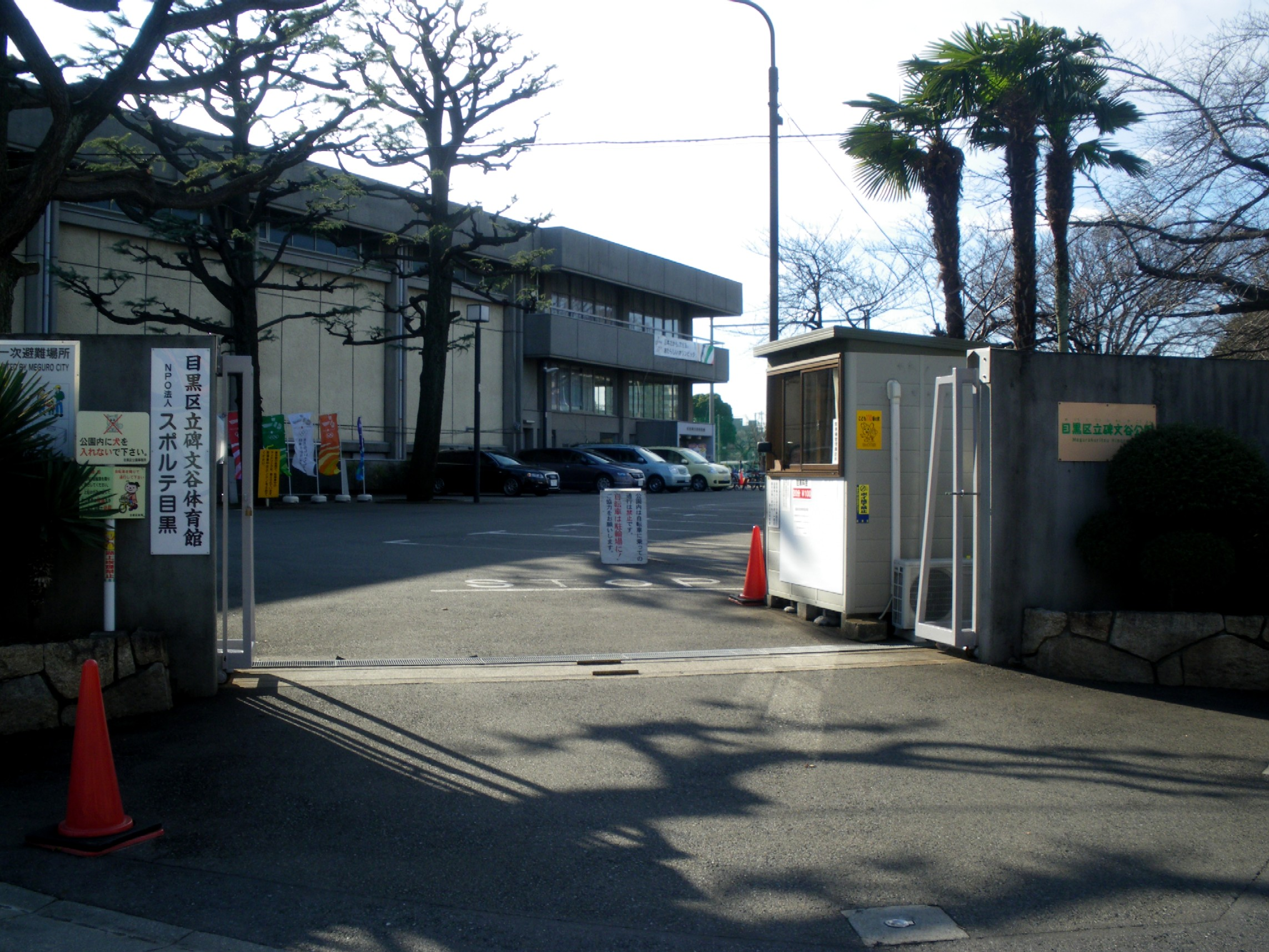 Entrance of Himonya Gymnasium in Himonya Park, Himonya, Meguro Ward, Tokyo, Japan